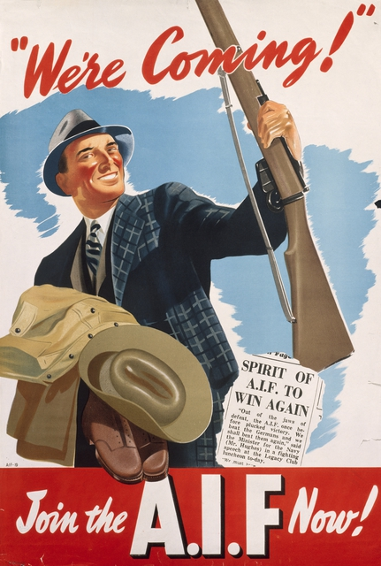 Recruiting poster for AIF depicting a happy young man in civilian clothes, holding Army uniform and rifle, newscutting referring to AIF's fighting prowess in background